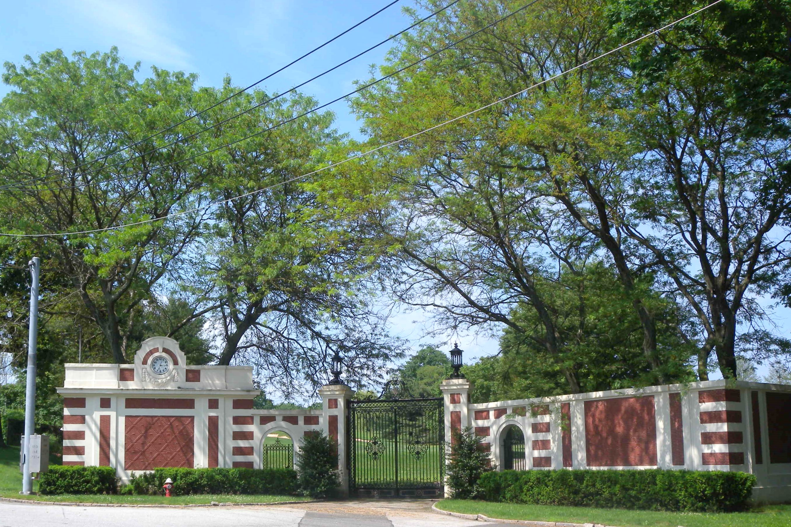 Looking north at disused southwest gate of the Village Club of Sands Point at the heads of Harbor Rd, Astor Pl, and Port Washington Blvd on a sunny midday.